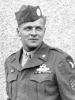 Don Malarkey in his uniform during World War II at Zell am See.